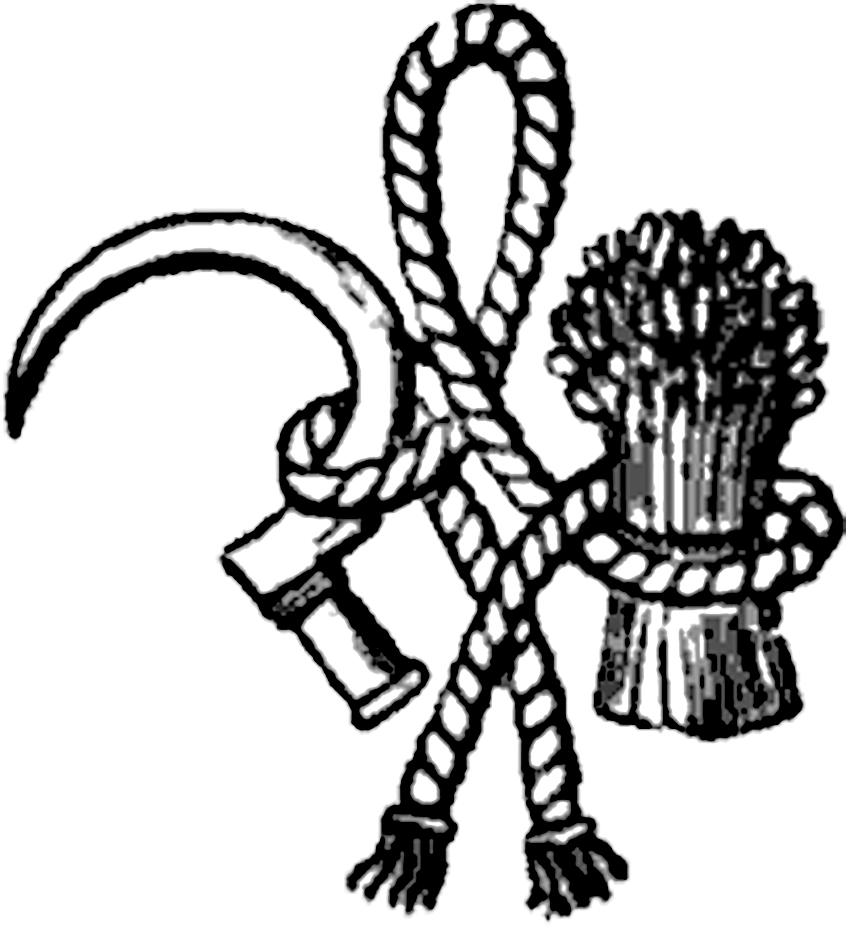 Hungerford knot, uniting the Hungerford sickle and the Peverell garb. The marriage of Walter Hungerford, 1st Baron Hungerford (1378-1449), KG, to Catherine Peverell (daughter of Sir Thomas Peverell, MP, of Parke and Hamatethy, Cornwall) is symbolised in a heraldic badge showing the Hungerford knot uniting the Hungerford sickle and the Peverell garb, the latter a badge of the ancient Peverel family, feudal barons of Peverel (or of "the Peak") in Derbyshire. (Source of drawing: English Heraldry, by Charles Boutell, who erroneously calls it "The Stafford badge"). The Hastings family were heirs of Hungerford and thus also used the badges and knot.